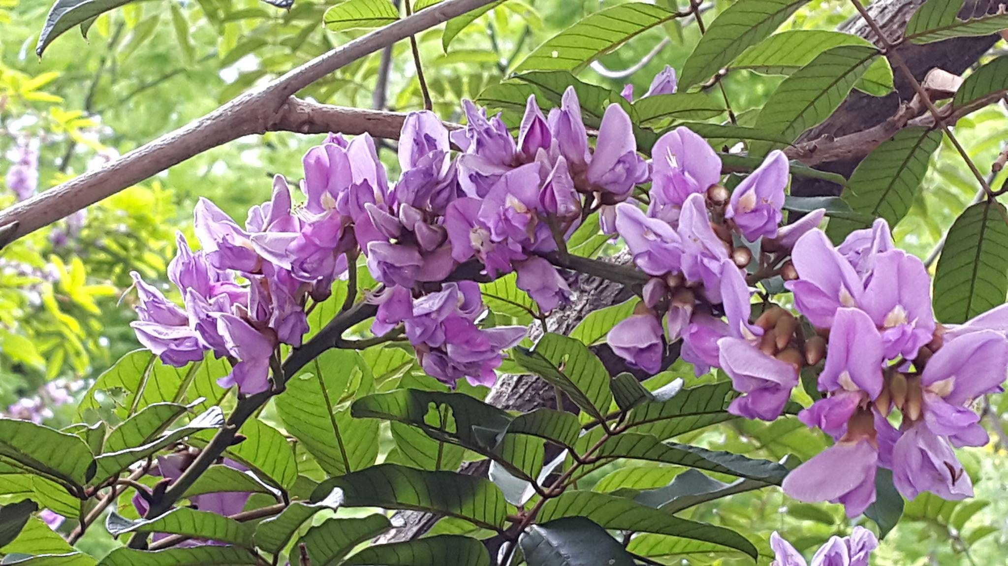 Millettia grandis - cultivated - Honeydew, West Rand, Gauteng, South Africa